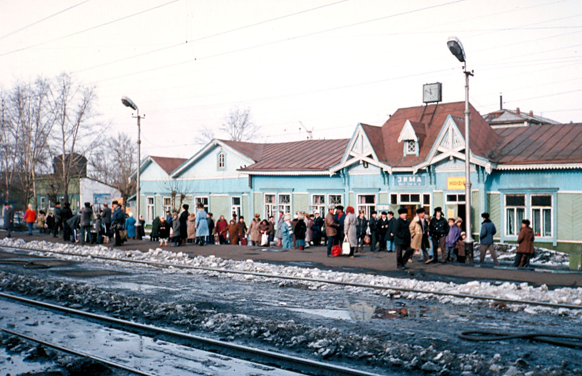 Zima is a town in and the administrative center of Ziminsky District of Irkutsk Oblast, Russia, situated on the intersection of the Trans-Siberian railway with the Oka River.